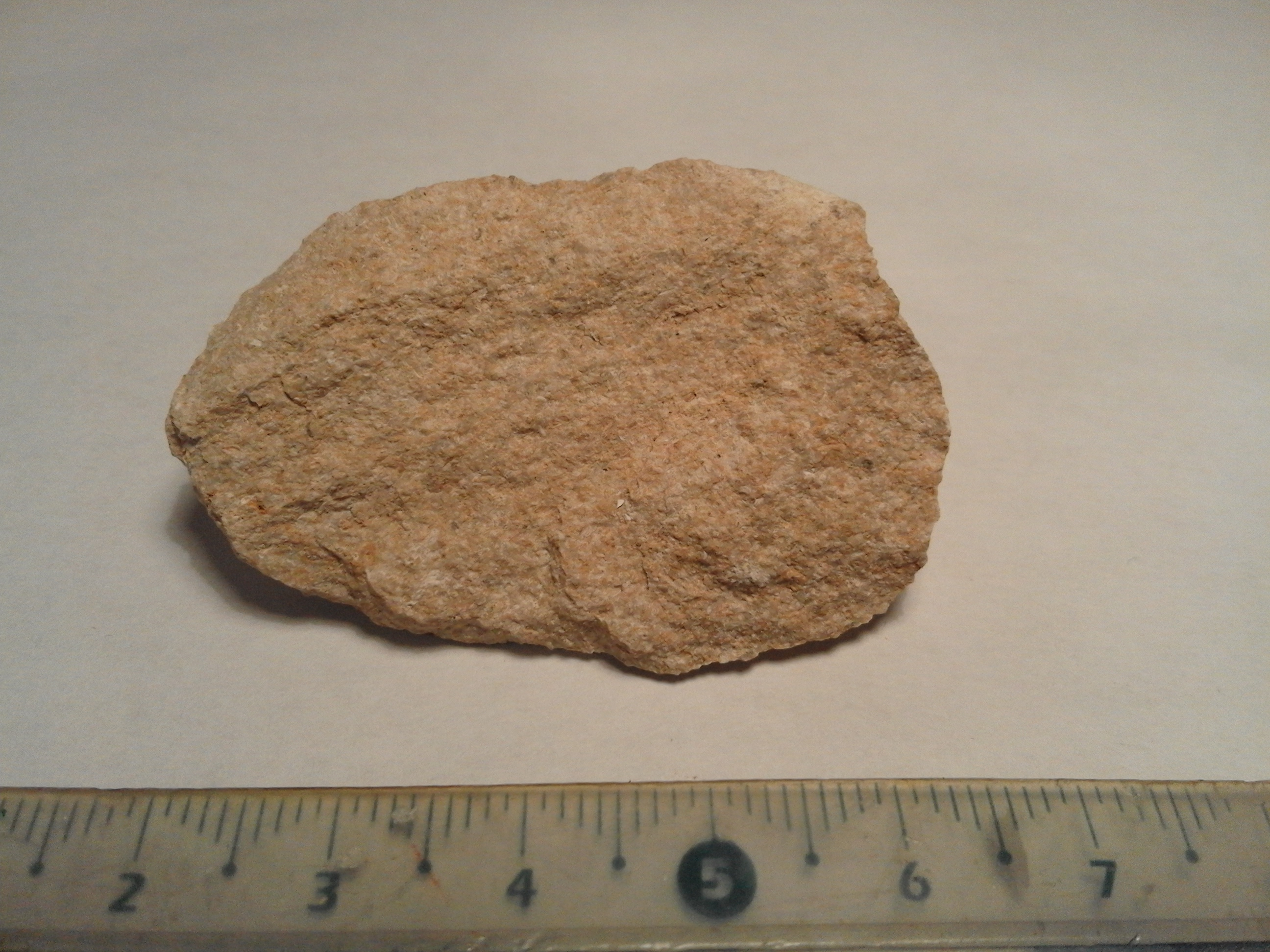 Calcaire à milioles (Aude, France)